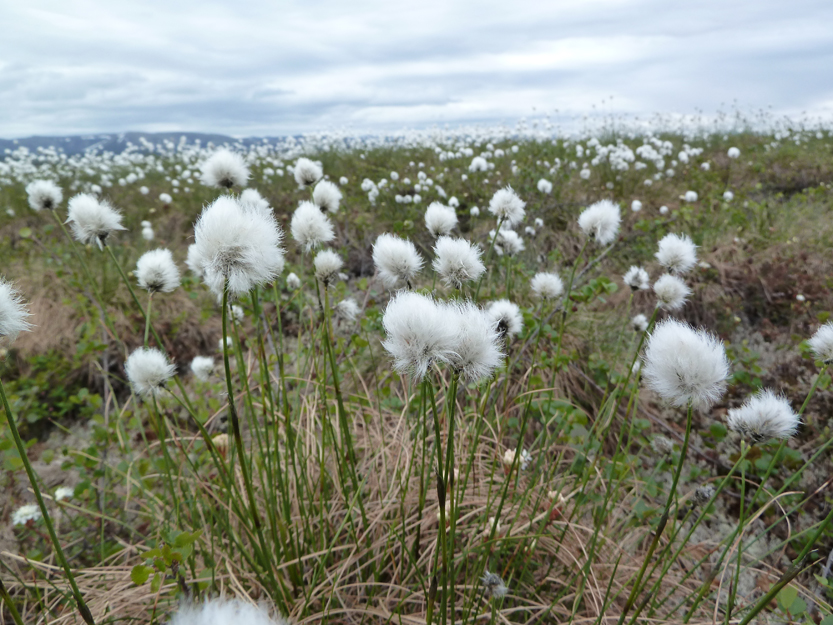 Cottongrass grows in sunny, wet areas of the tundra. When it is "in bloom" the ground appears as if it is dusted with snow.